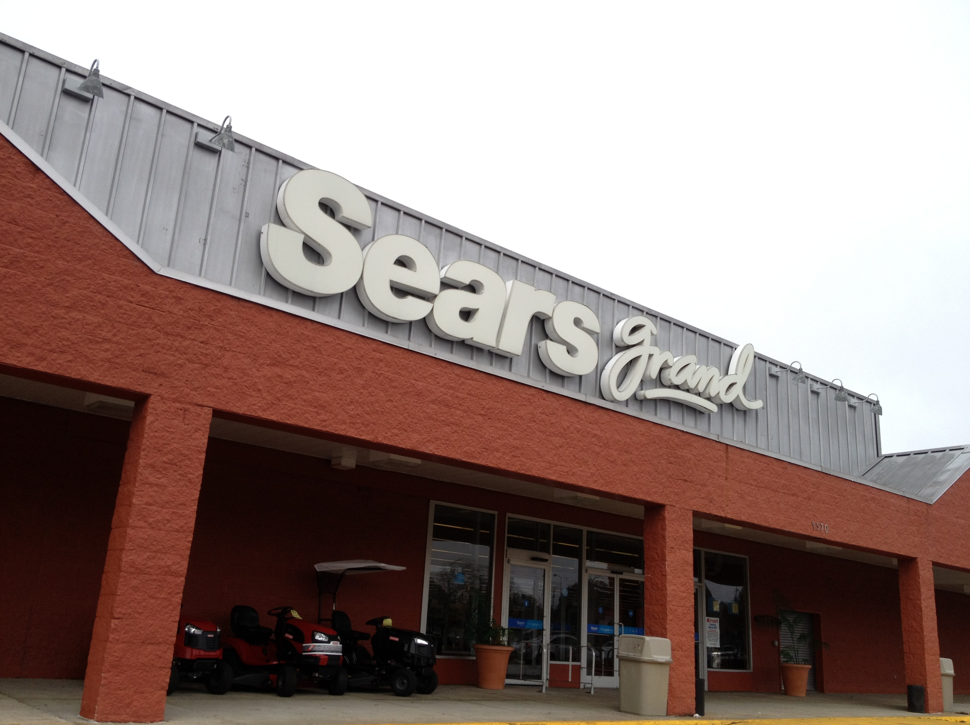 Sears Grand Summerville, SC January 2012